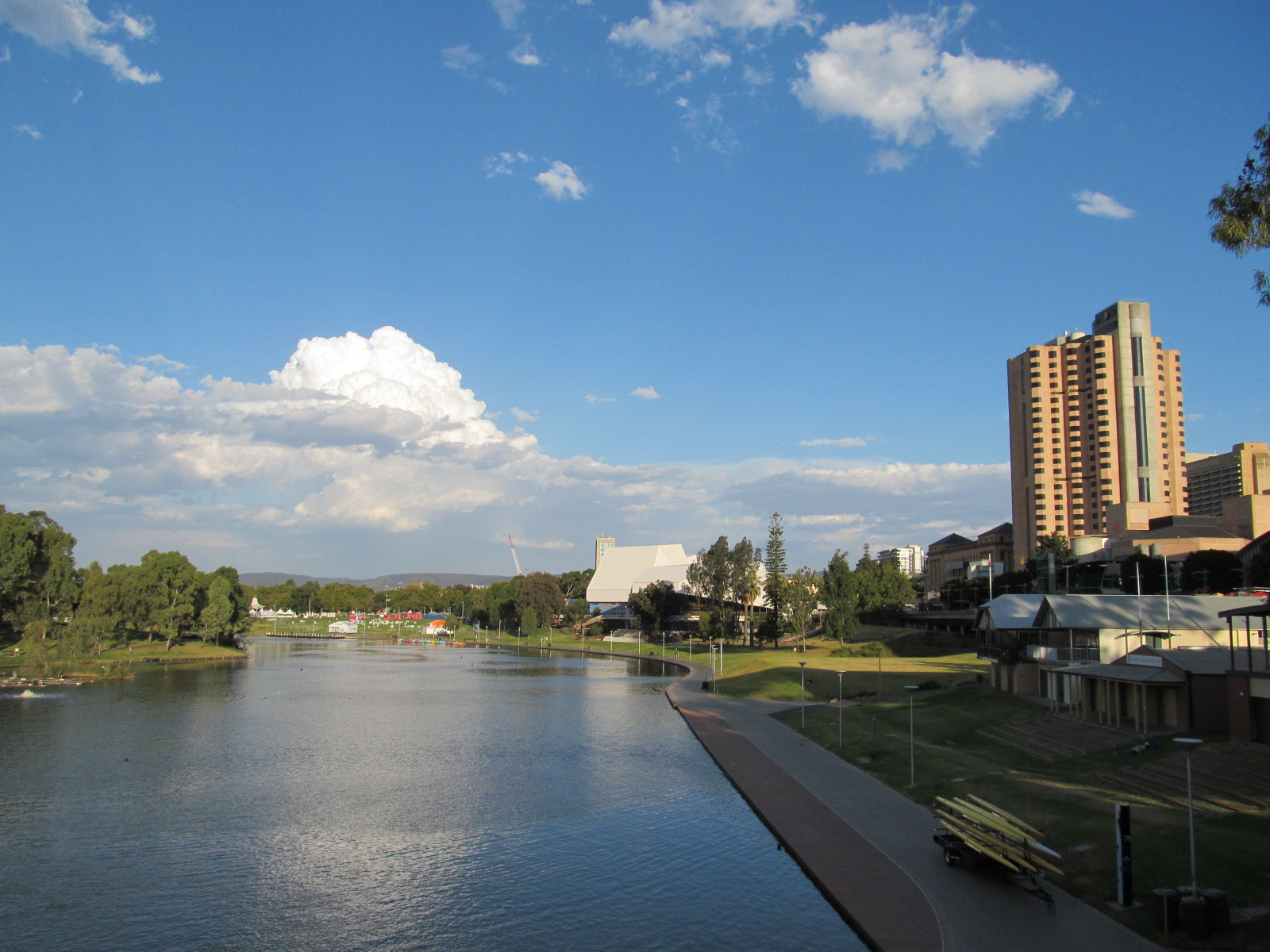 Torrens River, Adelaide, looking east from the Montefiore Road (Morphett Street) bridge.